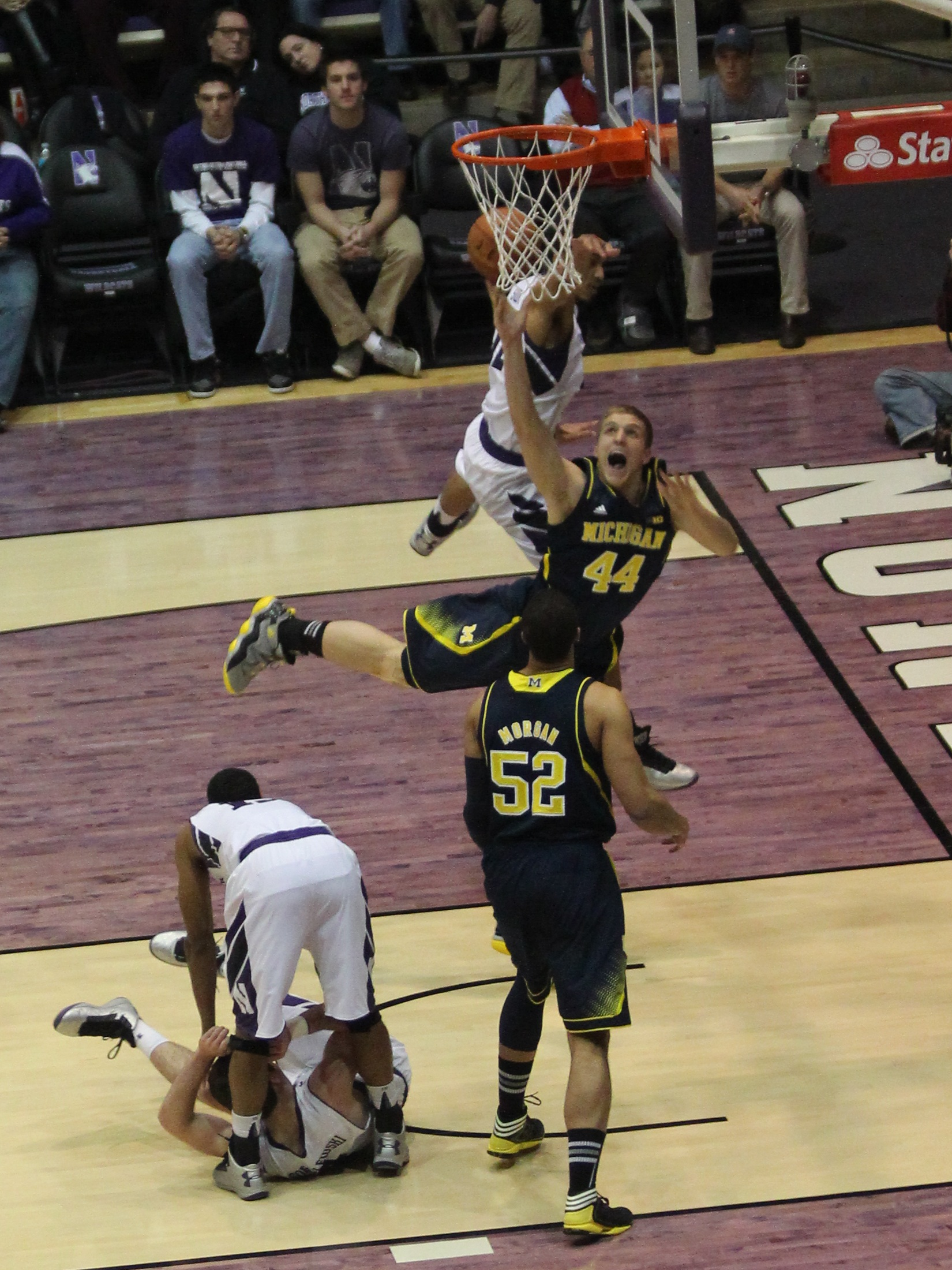 Max Bielfeldt of the w:2012–13 Michigan Wolverines men's basketball team playing against w:2012–13 Northwestern Wildcats men's basketball team draws a foul.